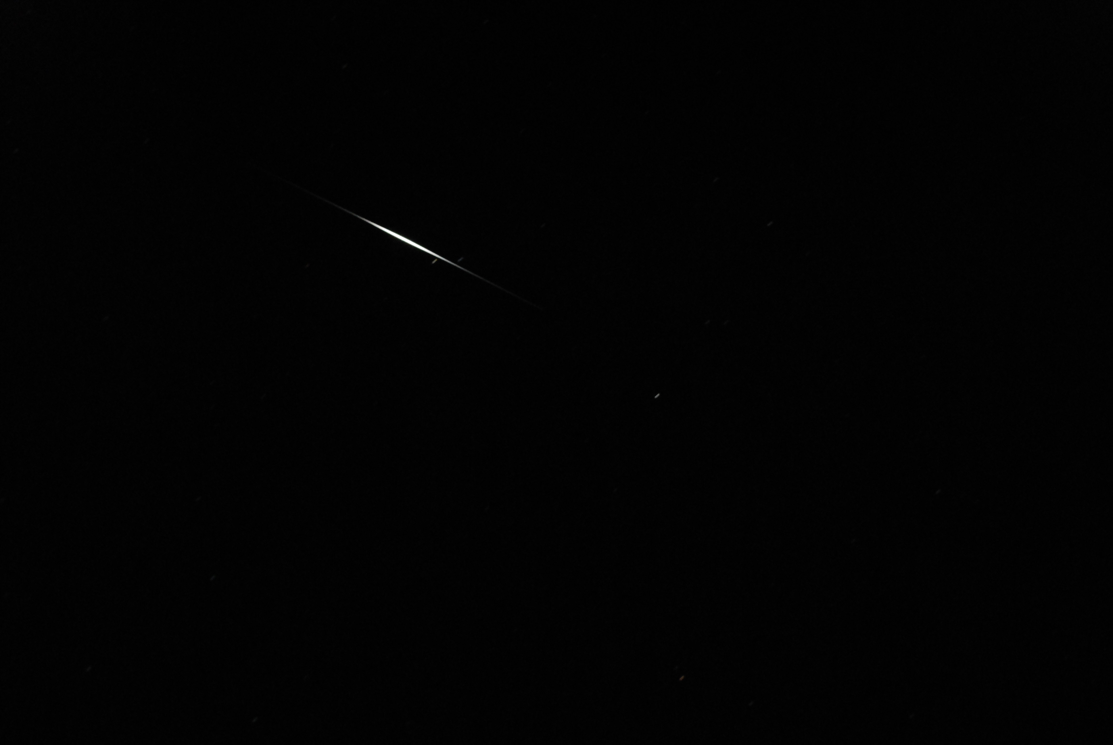 Iridium Flare